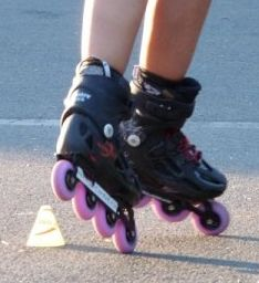 inline freestyle skates